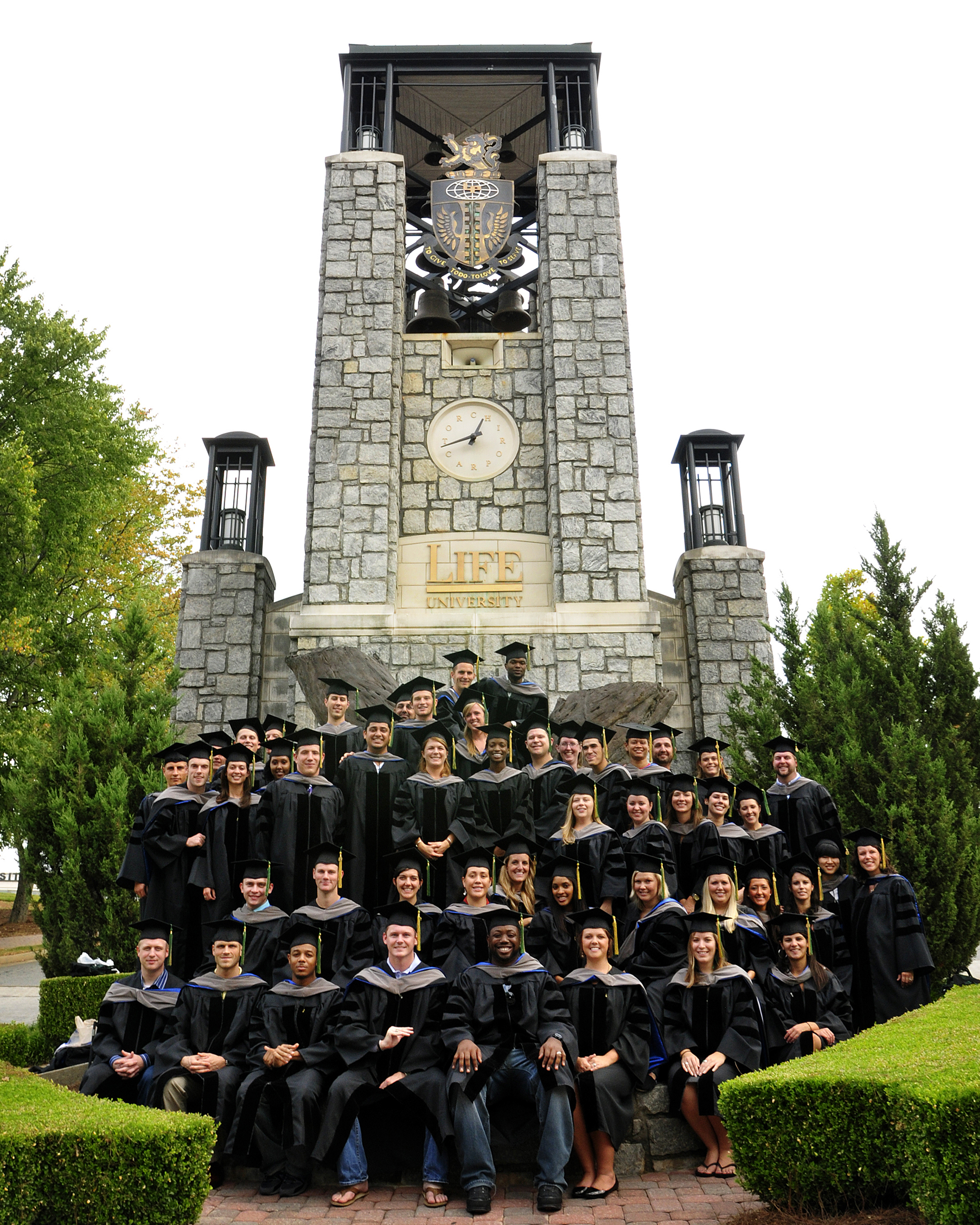 Life University summer 2011 chiropractic graduates pose in front of the Bell Tower.